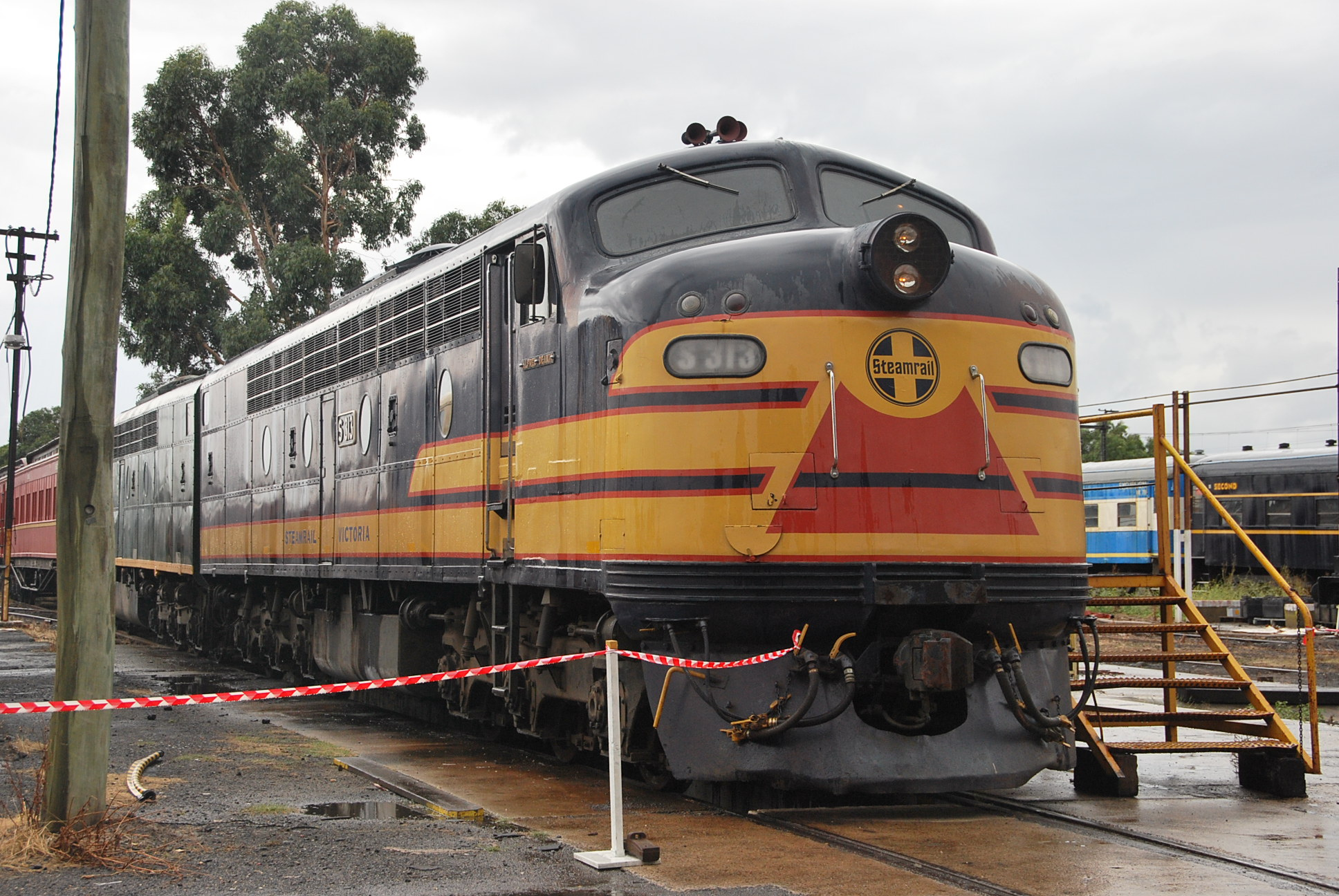 S313 in a special movie livery at Newport, Melbourne.